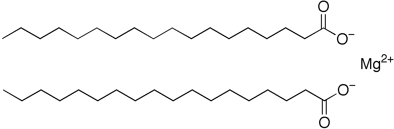 chemical structure of magnesium stearate